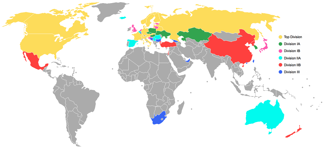 Participating nations in the 2017 IIHF World Championship, by Divisions